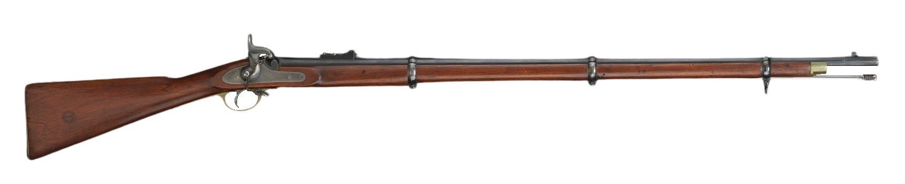 The .577 caliber British Pattern 1853 Rifle-Musket was the second most widely used firearm of the Civil War. A favorite of Confederate soldiers, it was also imported by the Union to keep up with the demand for rifles. Manufactured by the London Armoury Company. Measurements overall, rifle: 54 3/4 in x 2 3/8 in; 139.065 cm x 6.0325 cm